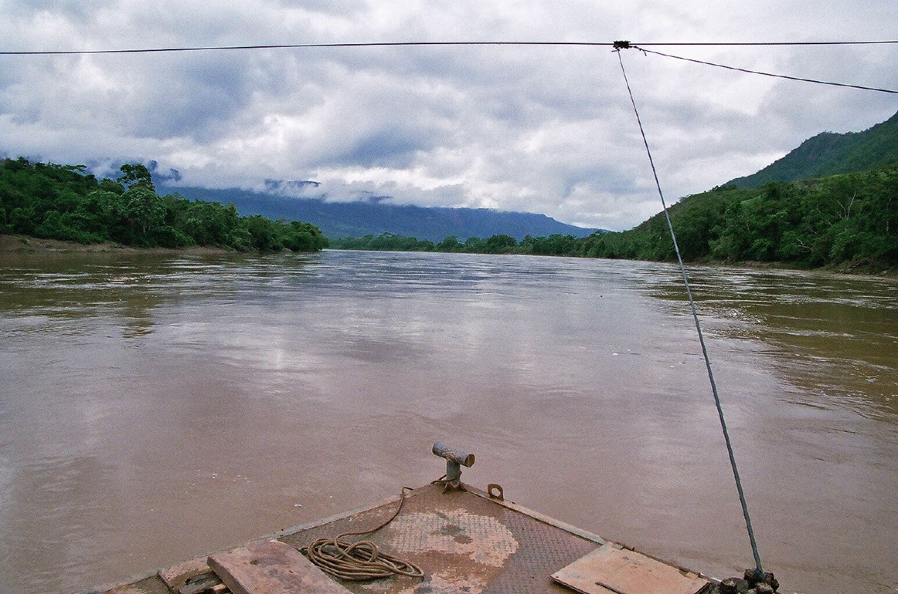 This was impressive. The barge was just attached to this cable that runs across the river via two other cables. By changing the lengths of the two retainer cables and orienting the barge in the river, it would cross pushed by the current. The current is very strong at this point and the river carries a lot of dead wood, sometimes whole trees, but the barge is sturdy enough to take direct impacts without moving.